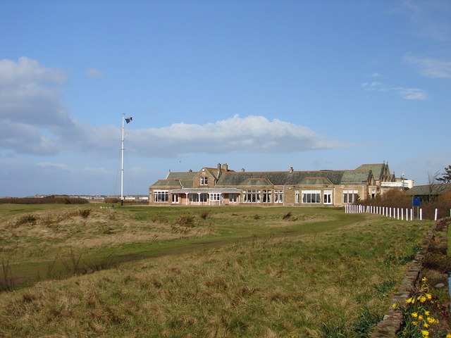 Royal Troon Golf Club Clubhouse Famous Open venue viewed from the front of The Marine Hotel.